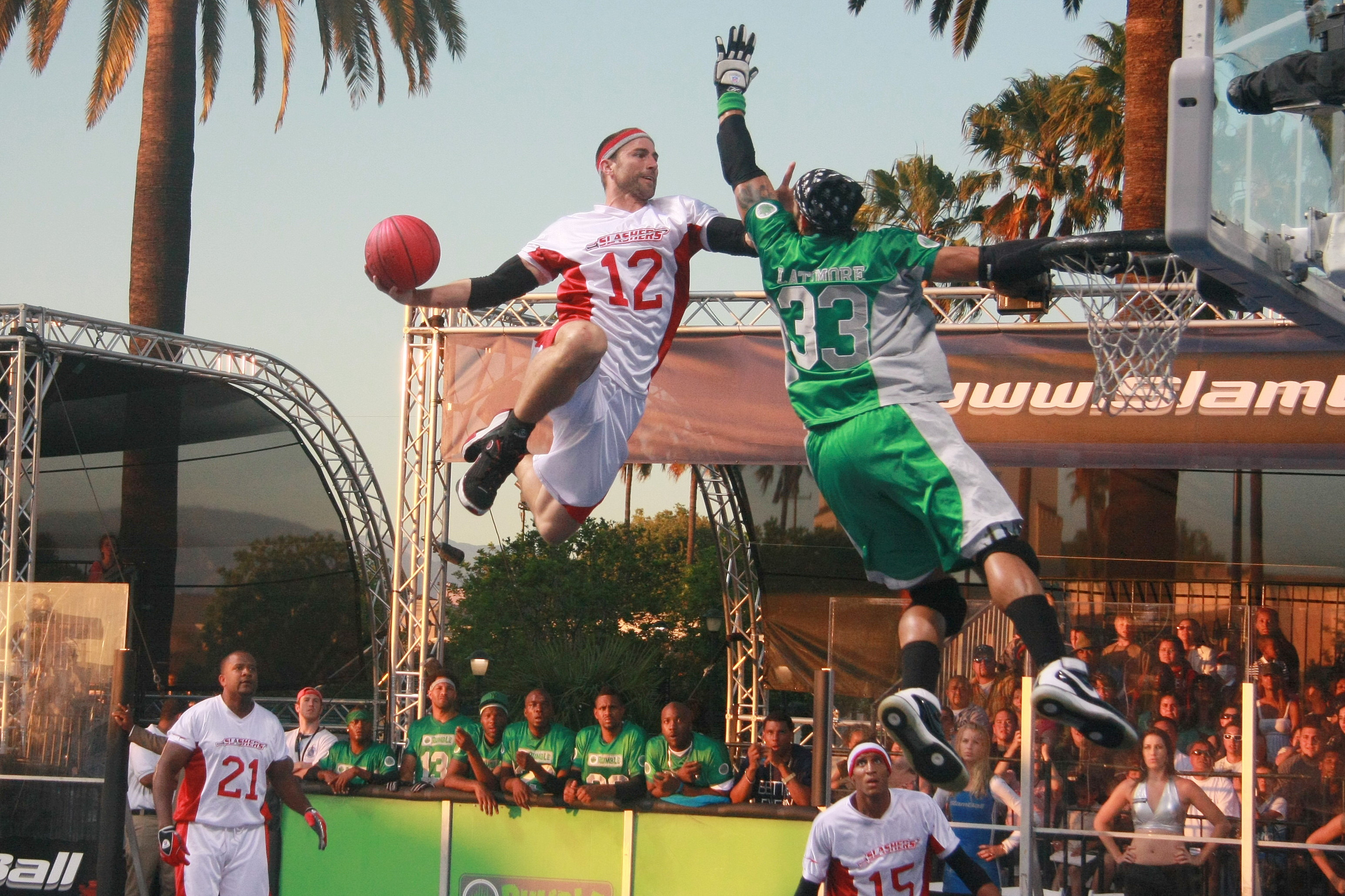 This is a picture taken of Slamball 2008 during the season June 12, 2008. It is a meeting of Corey Beezhold and Ivan Lattimore for that season of Slamball